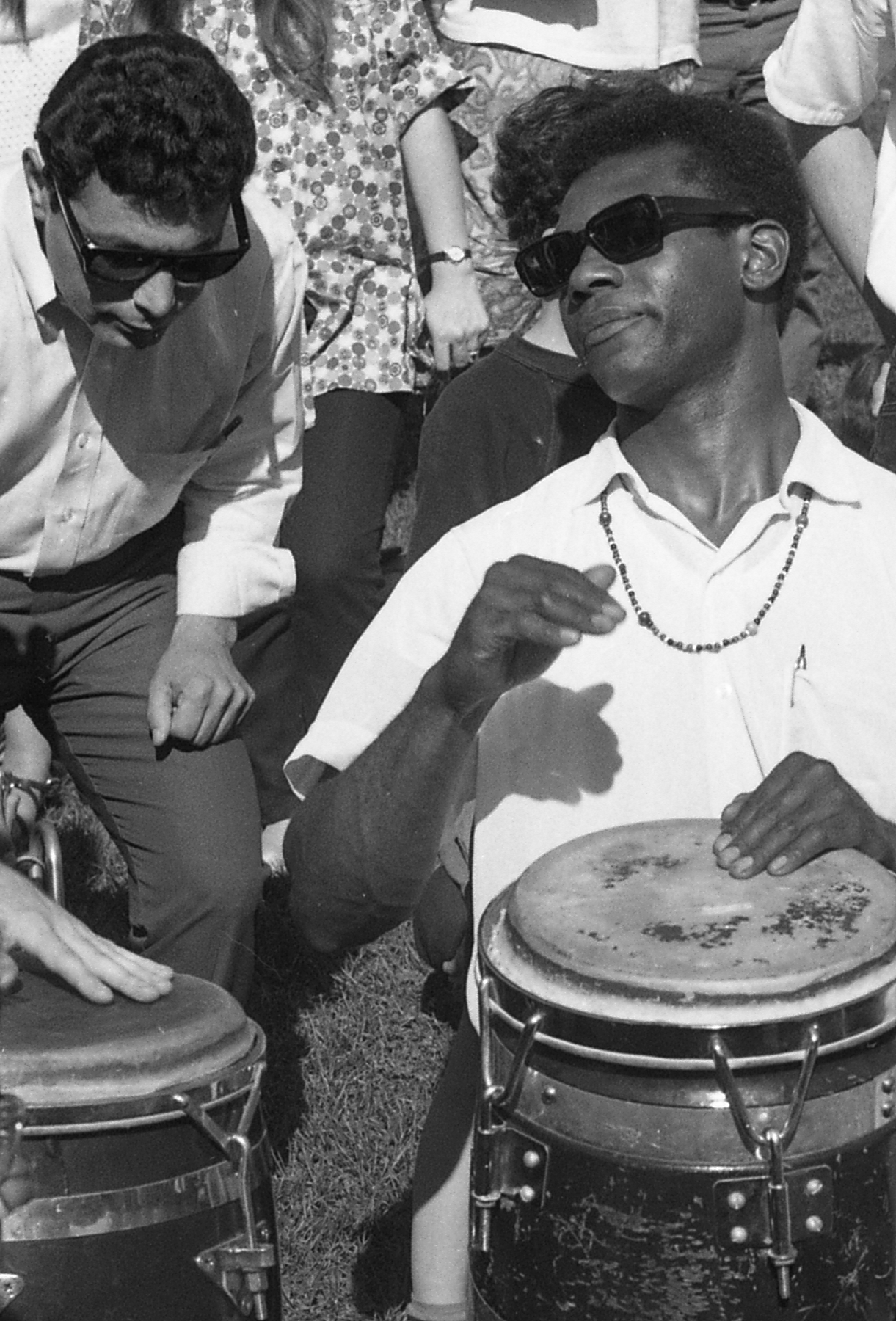 Two hand drummers, both wearing sunglasses, in a Berkeley, California, park, about 1966. Other information Photo by George Garrigues.